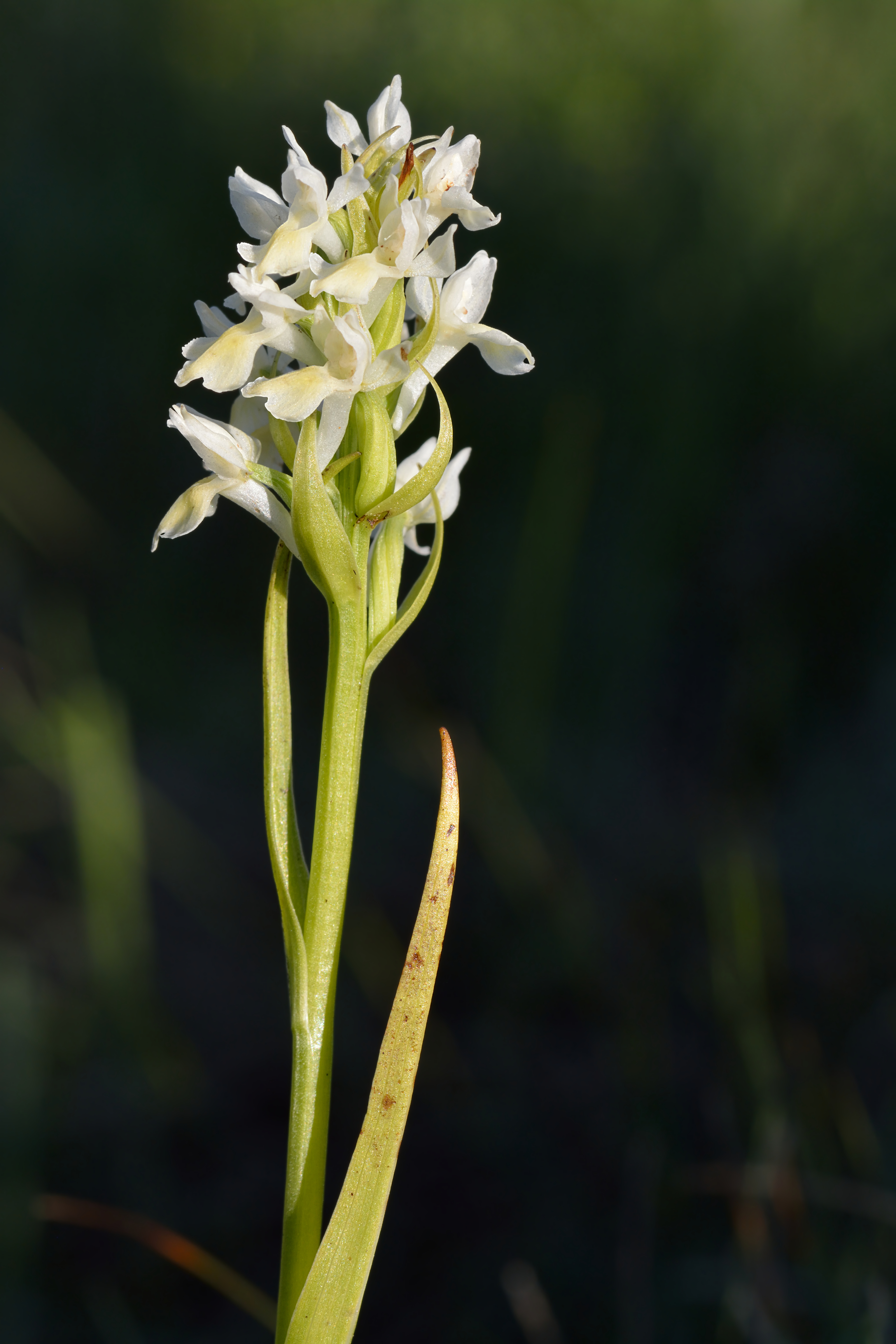 Cream-flowered early marsh orchid (Dactylorhiza incarnata subsp. ochroleuca). Niitvälja Bog, Northwestern Estonia.